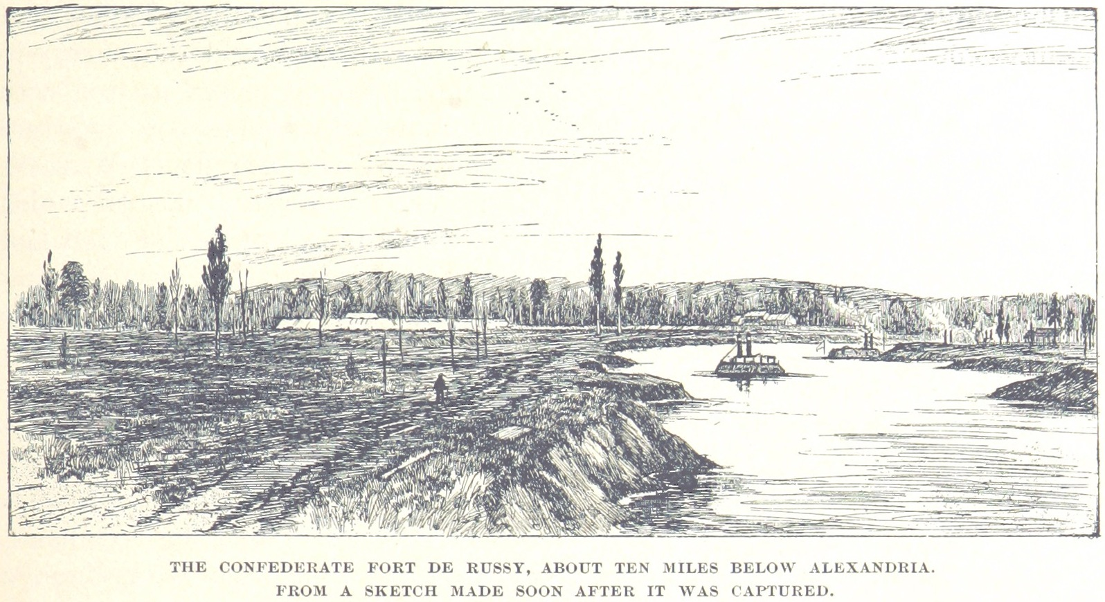 A drawing of Fort DeRussy (Louisiana) taken from a sketch made shortly after it was captured in 1864.